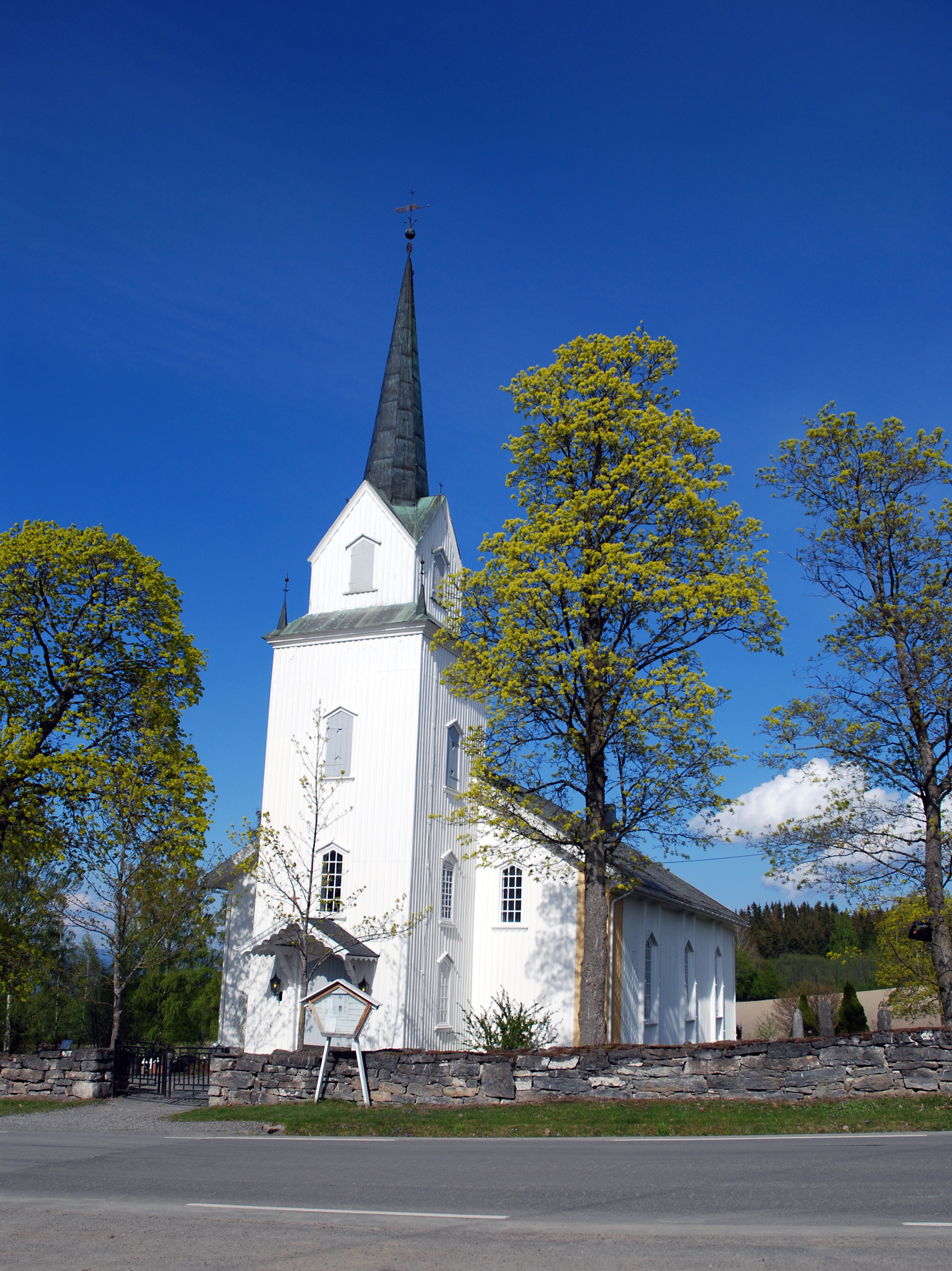 Helgøya church, in Ringsaker, Hedmark, Norway.